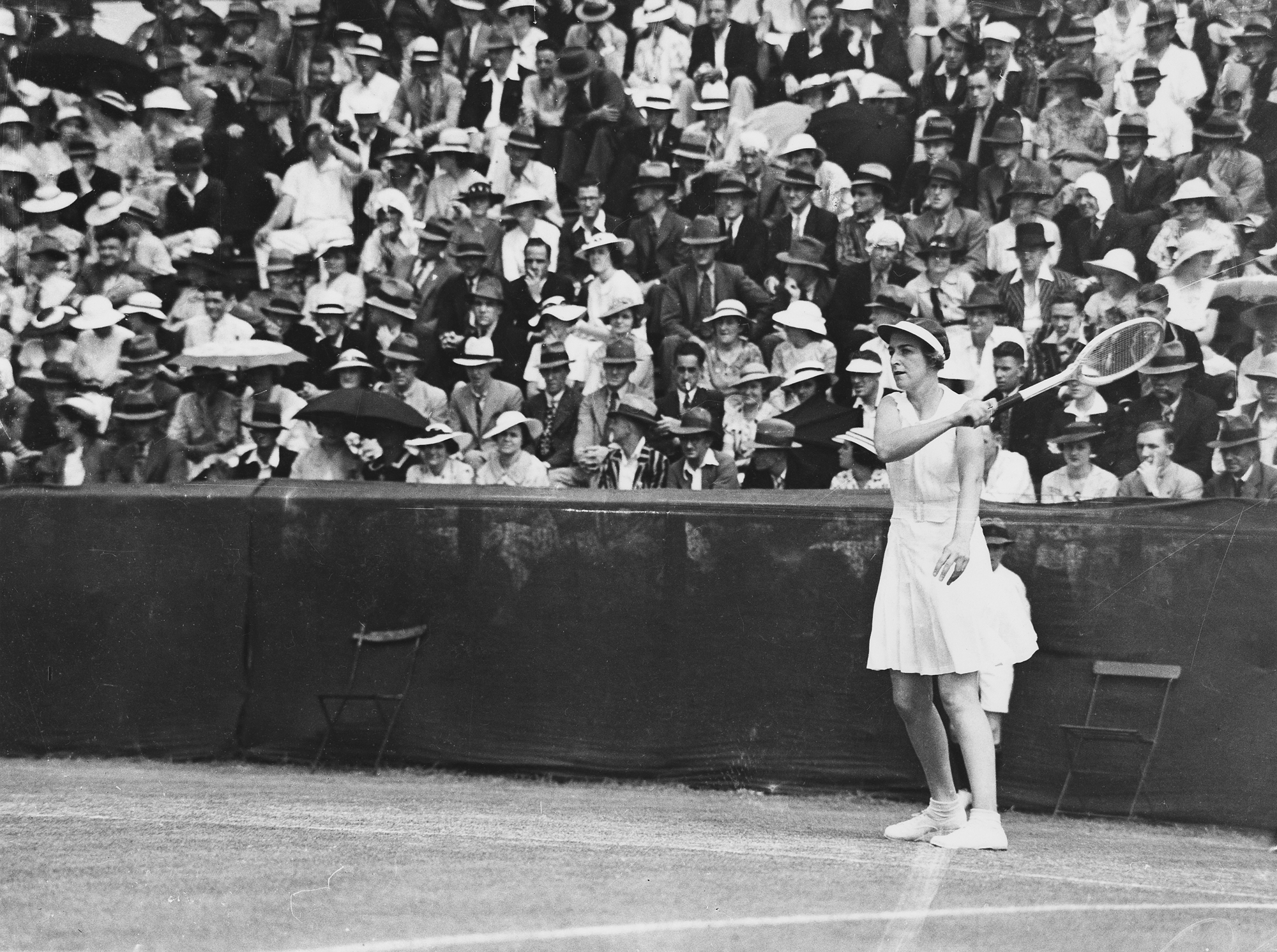 Australian tennis player Joan Hartigan competing in a tennis tournament at Milton Stadium in Brisbane, Australia